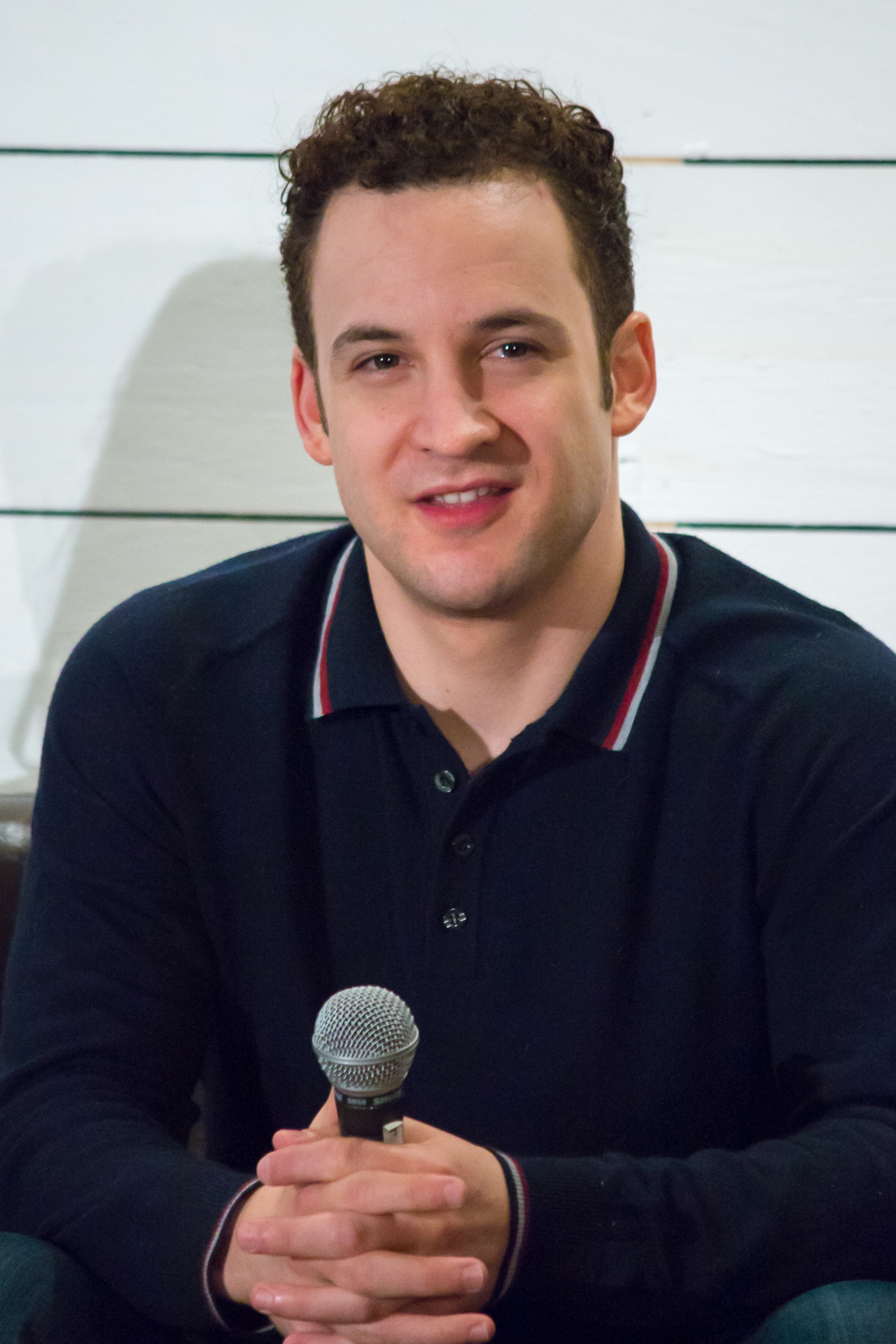 Ben Savage at the ATX TV Festival 2015 for Girl Meets World